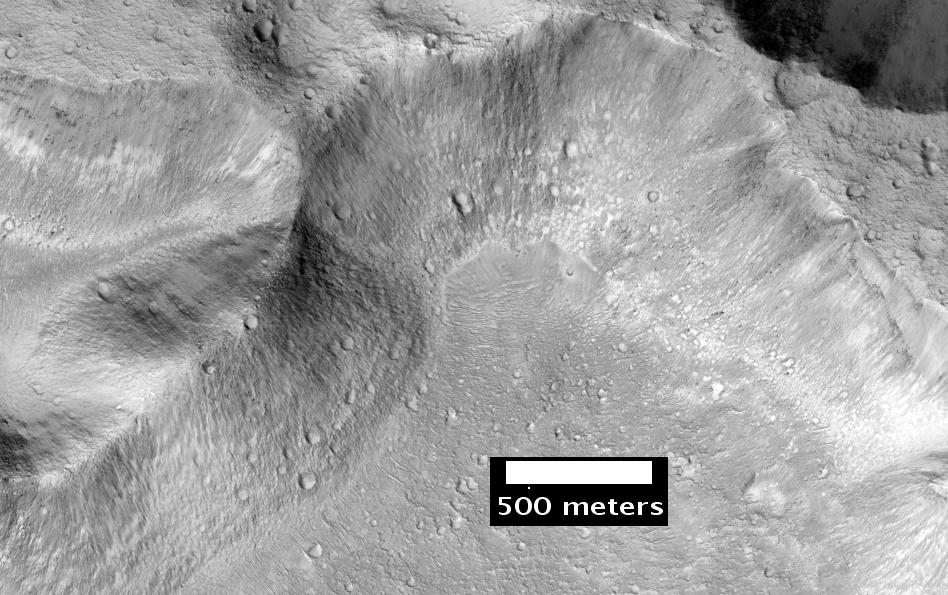 Simud Valles close-up, as seen by hirise. Location is 15.1 N and 321.8 E.